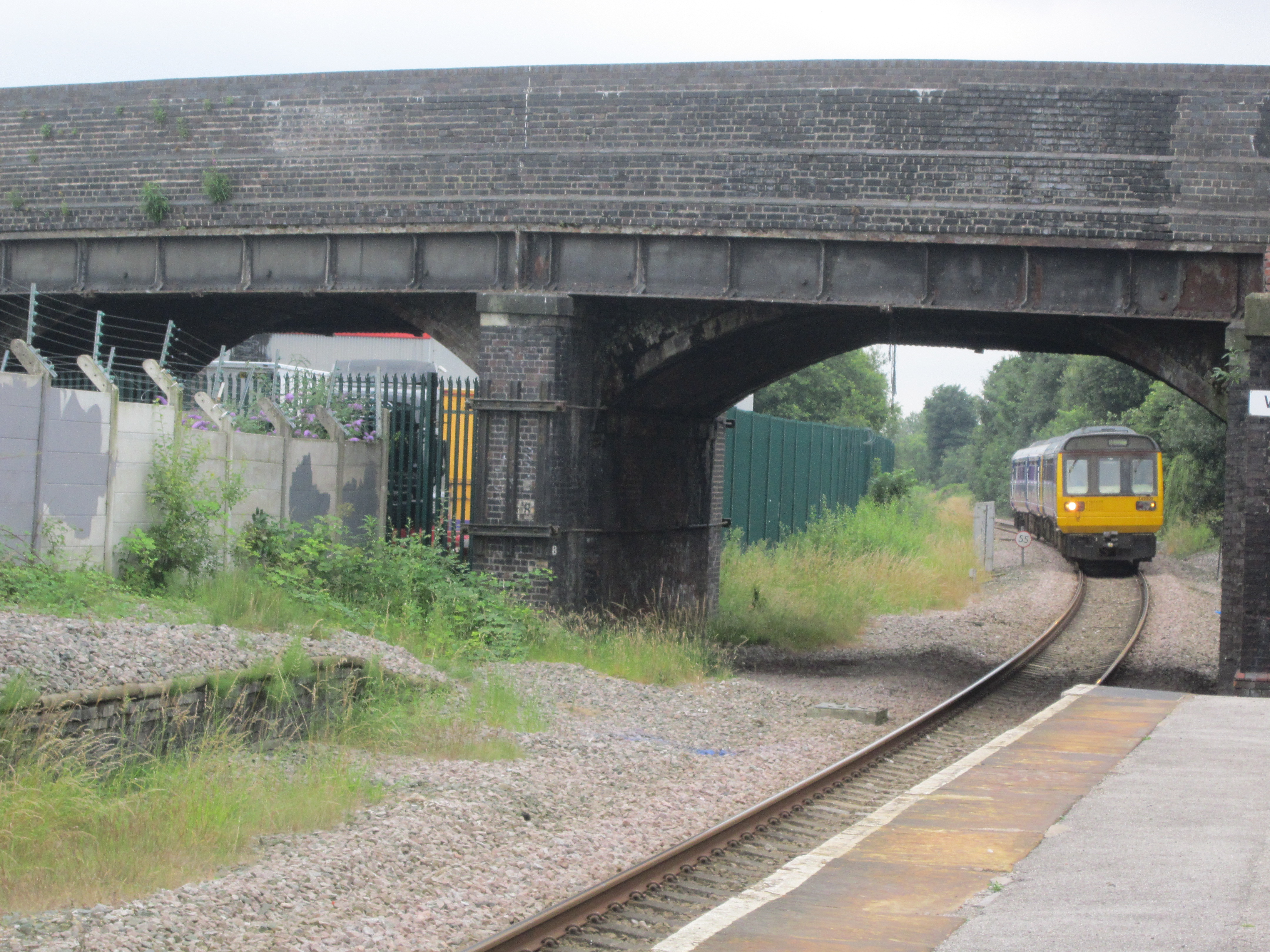 Photo taken at Reddish South railway station, Stockport, Greater Manchester, England. A train consisting of 142022 at the front with 142014 at the rear works the weekly service from Stockport to Stalybridge. Only the front unit 142022 is open to passengers, with 142014 closed off.